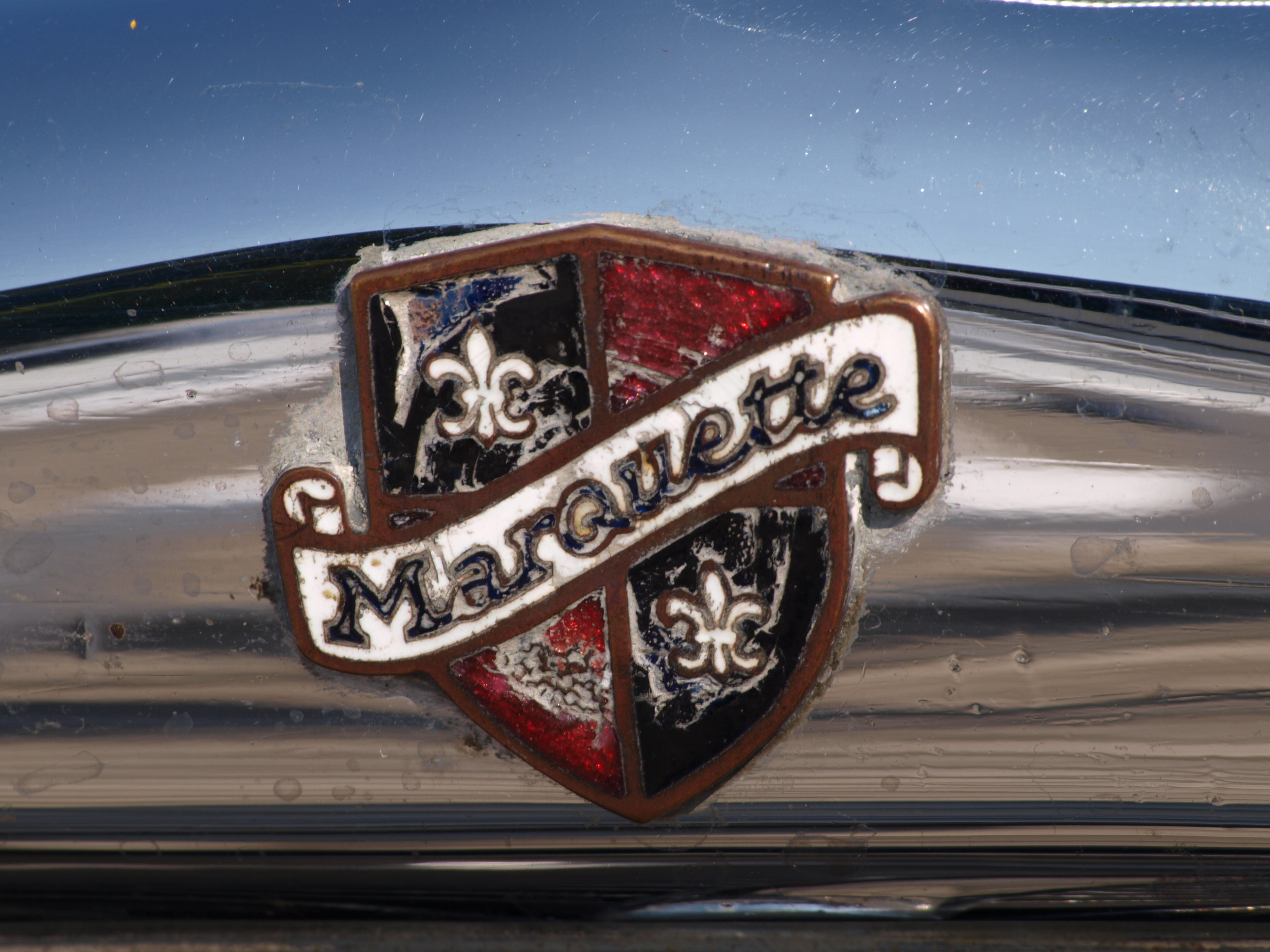 Photographed at the Classic Vehicle meeting 'Klassiek Mechaniek Zeeland 2011', The Netherlands.